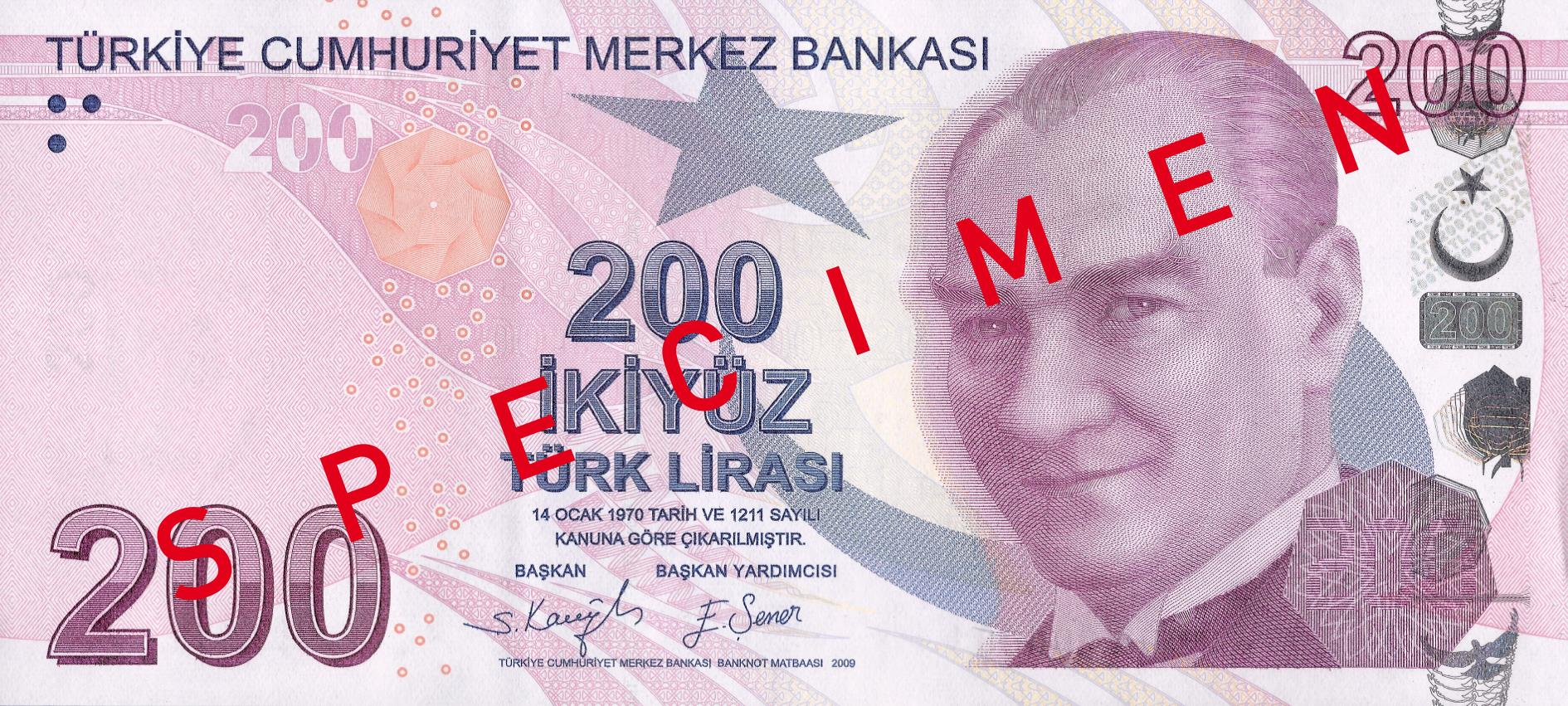 Front of 200 Turkish Lira